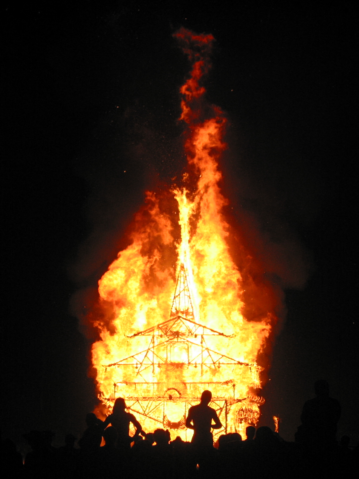 The Temple of Joy aflame at Burning Man in Black Rock City, Nevada.